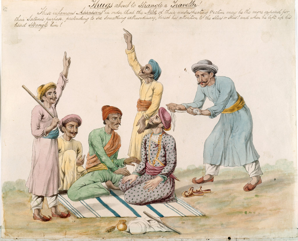 A groups of Thugs about to strangle a traveller on a highway in India in the early 19th century. Two or three members of the group are distracting the traveller by pointing to something in the sky, while another member approaches the traveller from behind with a ligature in his hands.